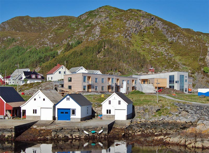 Runde Miljøsenter at the norwegian island Runde